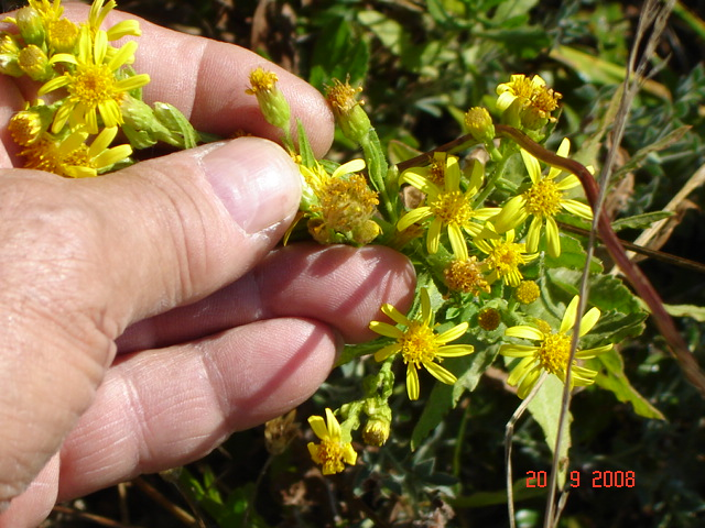 Gall on Dittrichia viscosa : parasited inflorescence by the fly Myopites stilata, at his beginning in september, not yet dryed.